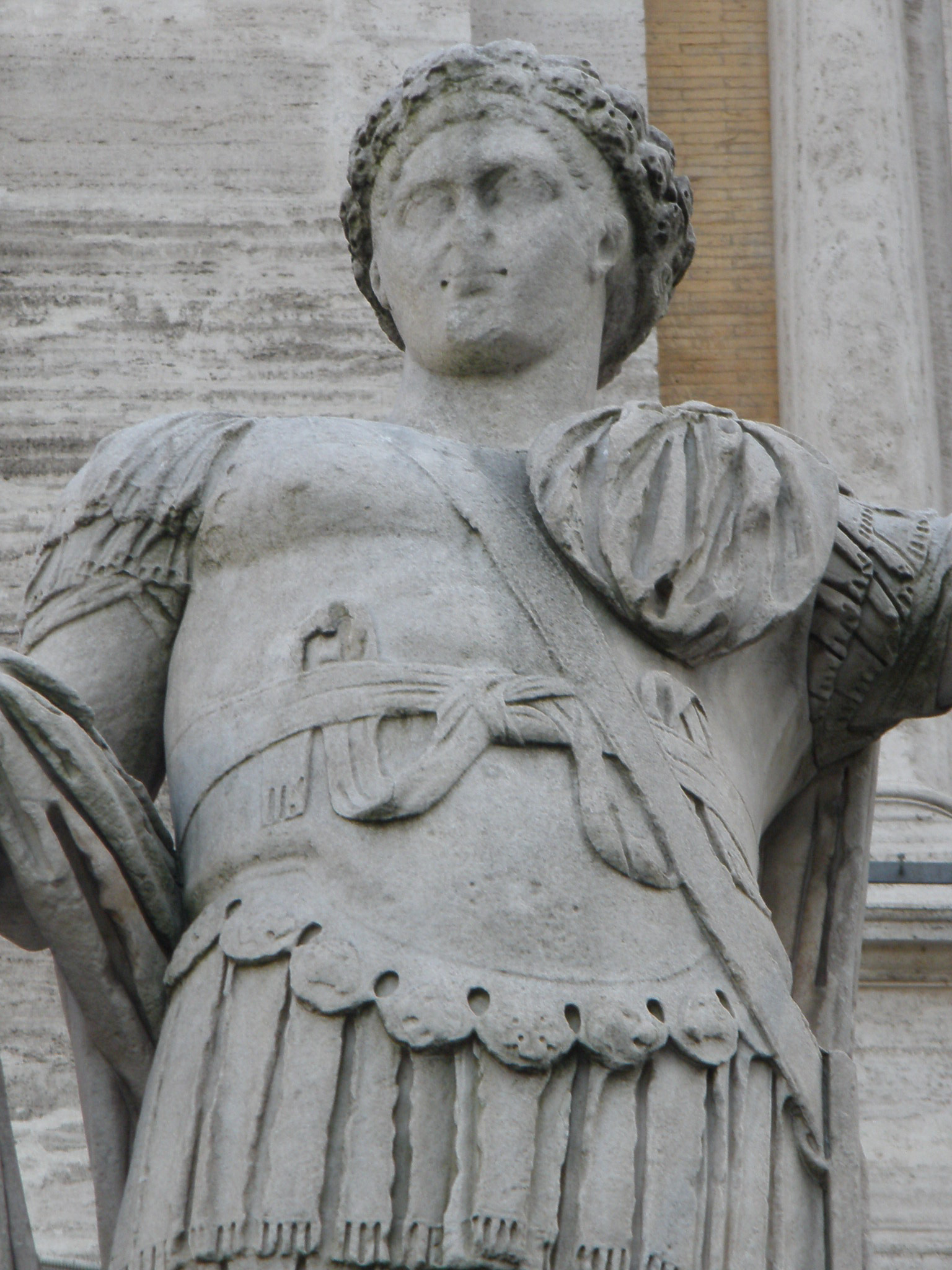 Statue of emperor Constantine II as caesar on top of the Cordonata (the monumental ladder climbing up to piazza del Campidoglio), in Rome.